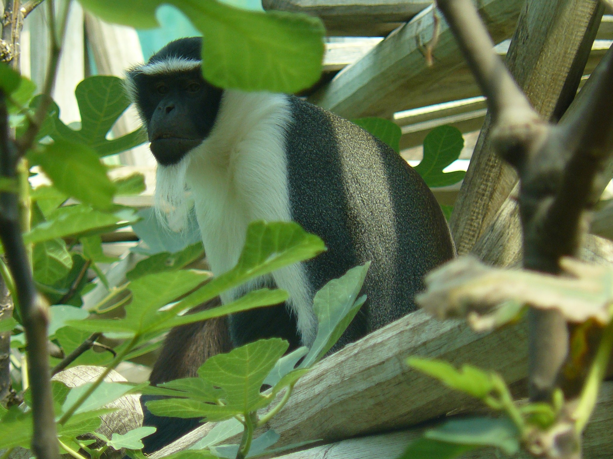 Cercopithecus diana roloway at Munich Zoo